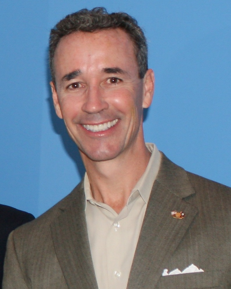 VA Delegate Joe Morrissey, 74th District